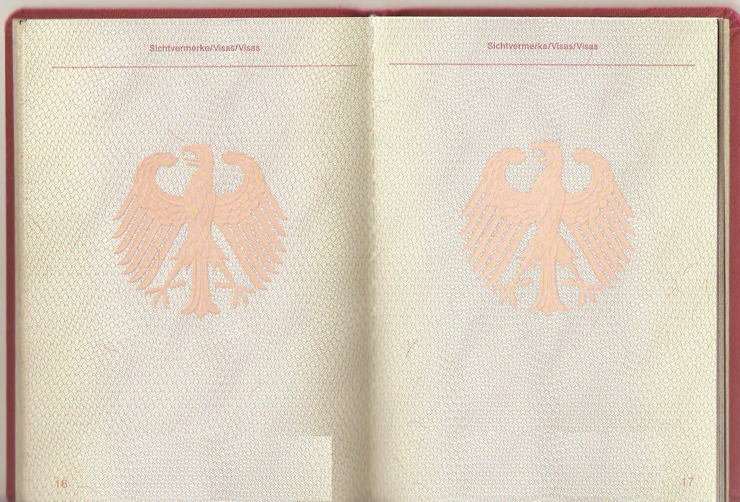 A scanned interior of EBB's passport (the passport no. on the bottom of each page was removed)